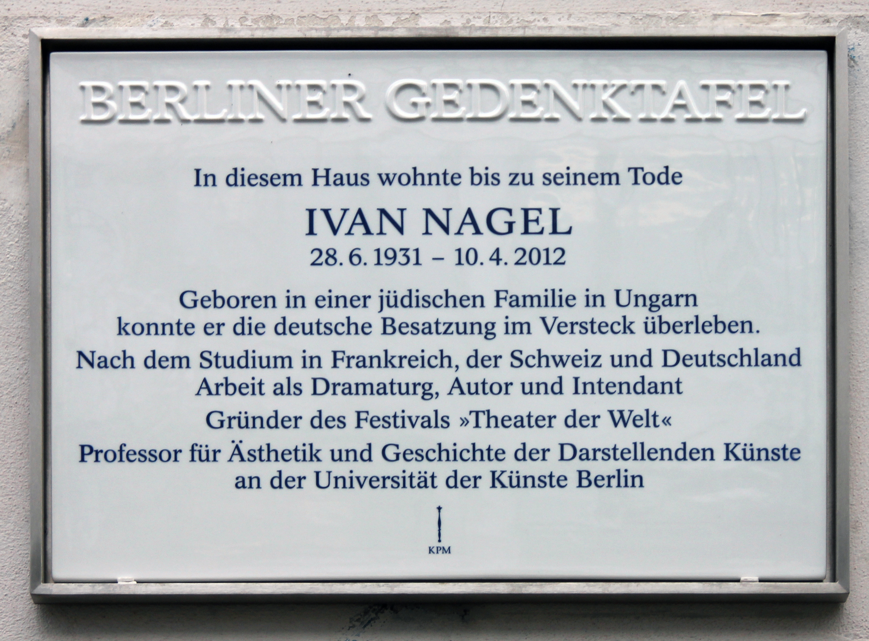 Berlin memorial plaque, Ivan Nagel, Keithstraße 10, Berlin-Schöneberg, Germany